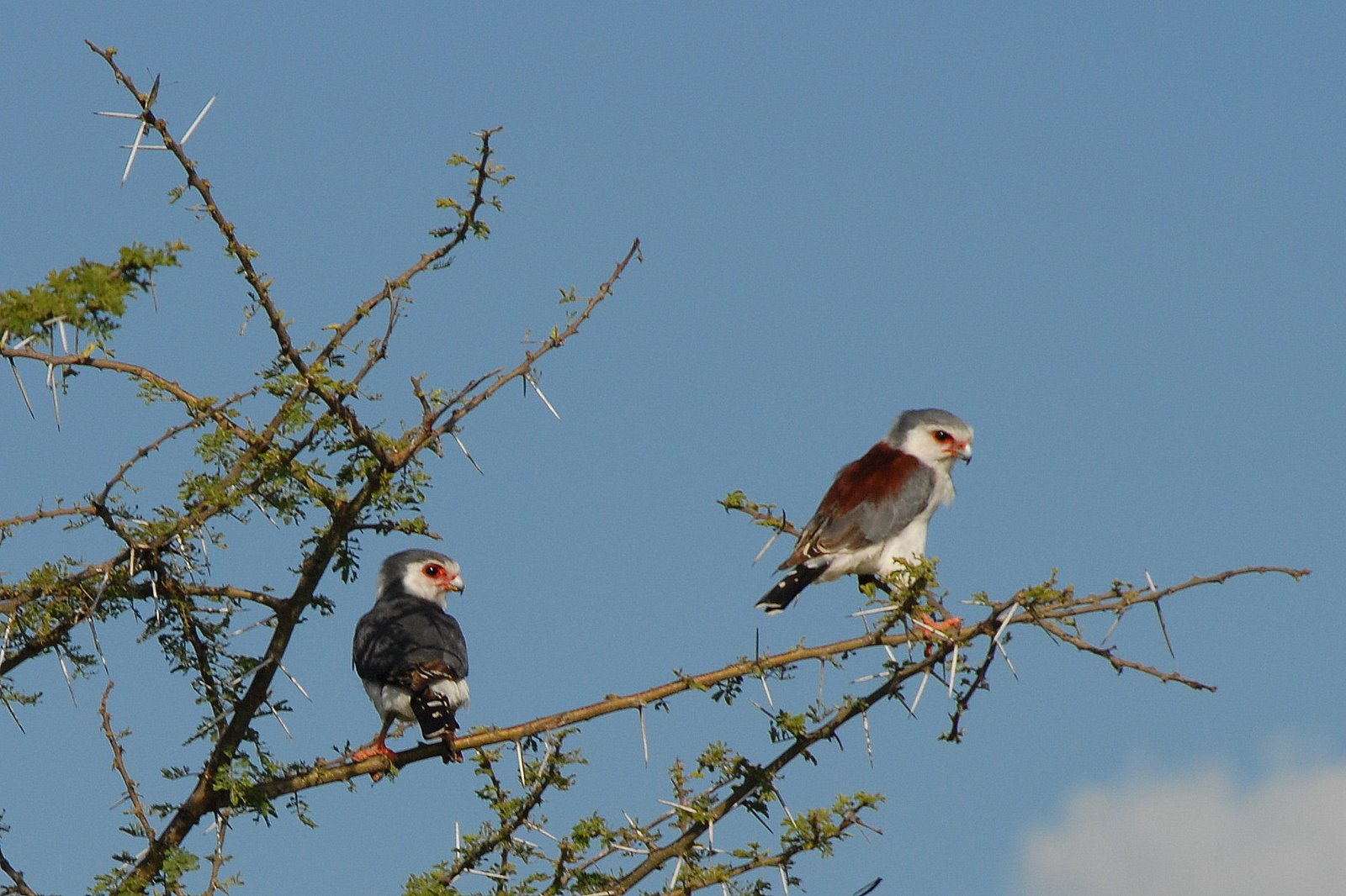 A pair African Pygmy-falcons at Serengeti National Park, Tanzania. The male is on the left and the female with a brown back is on the right.